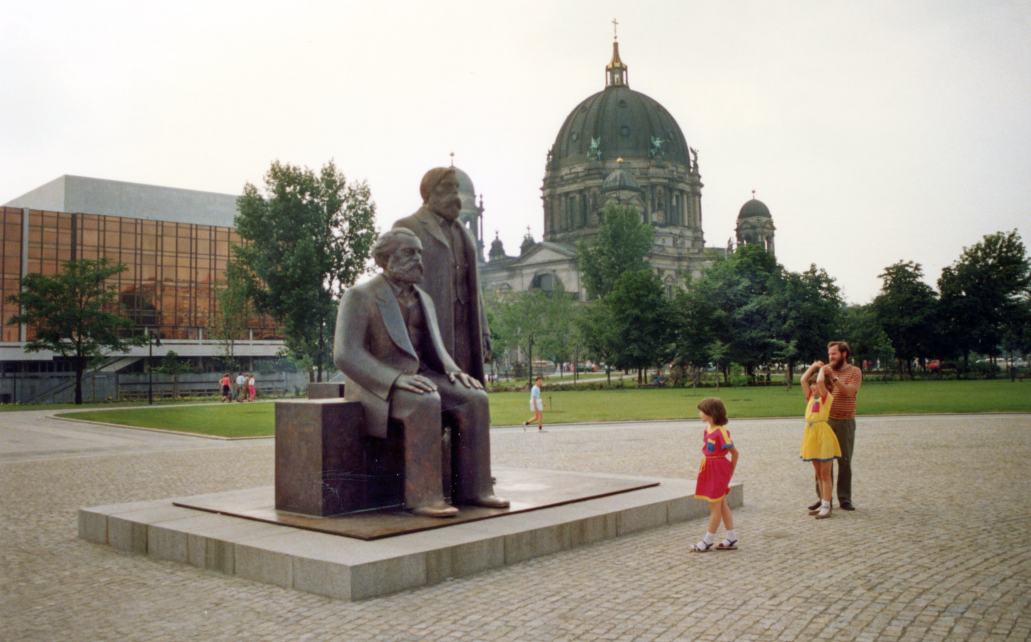 Marx-Engels-Forum in Berlin, GDR, summer of 1986.